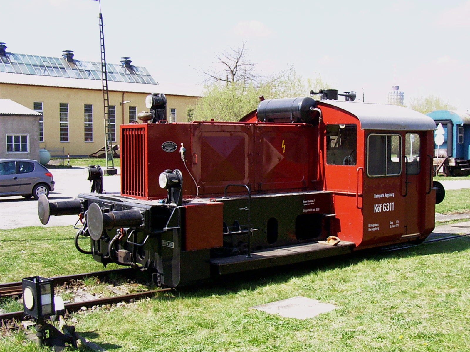 Restored and operational German light diesel locomotive, DRG Class Köf II, number 6311, in Bahnpark Augsburg (Augsburg Railway Park).